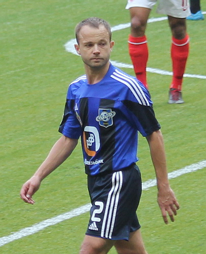 Dmytry Parfenov